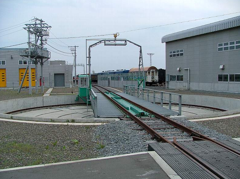 Turntable at Asahikawa Untenjo used for turning steam locomotives and snow throwers